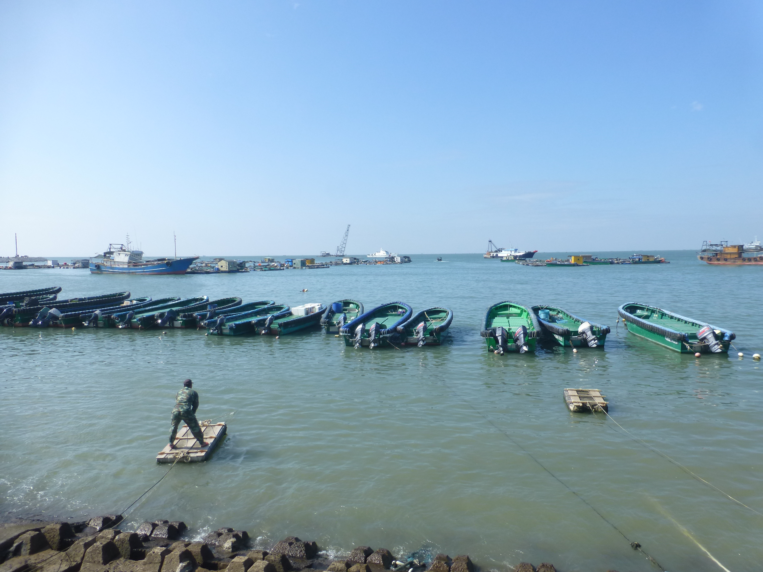 The South Harbor area of Naozhou Island.